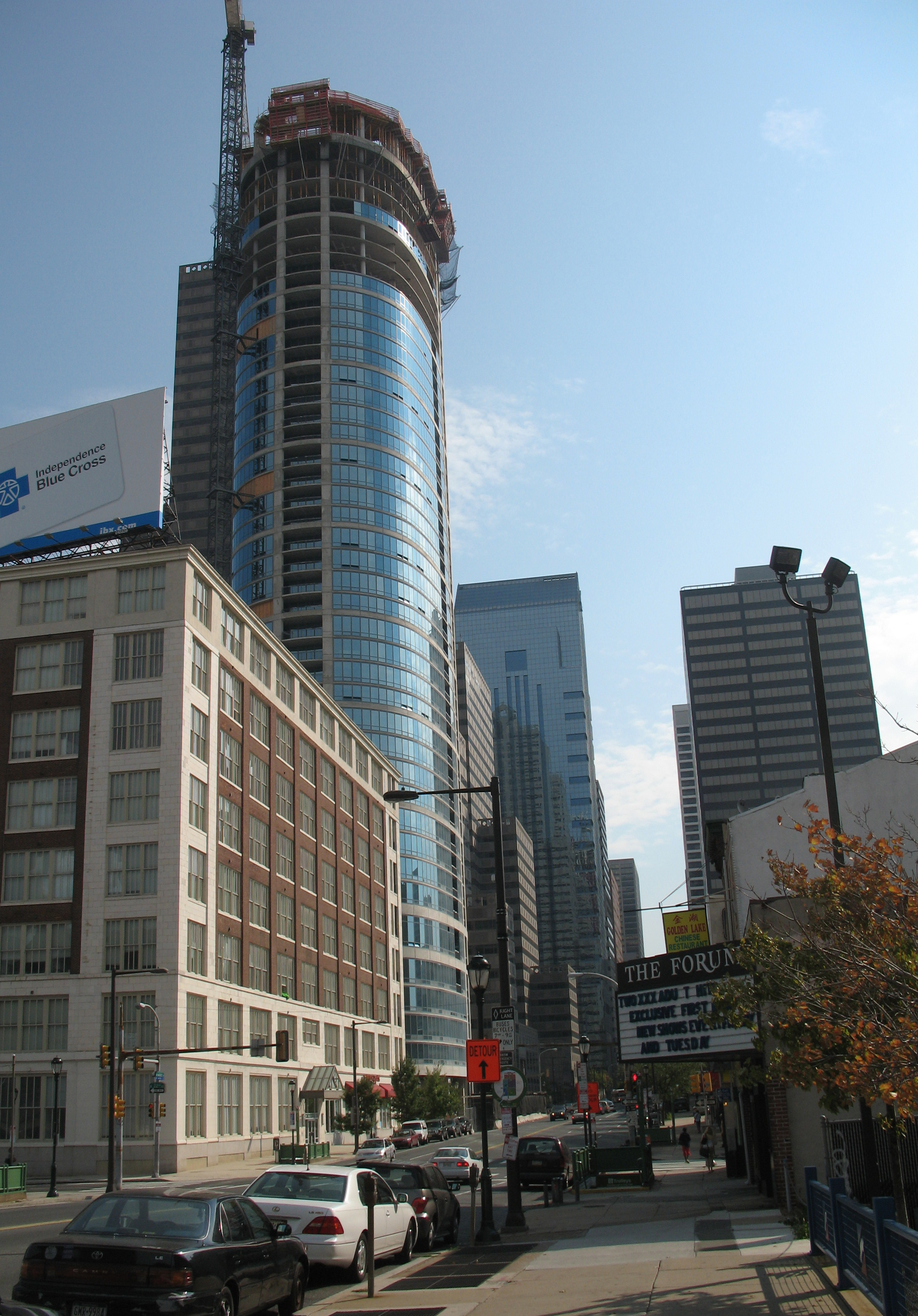 Photograph of The Murano, a condominium tower in Philadelphia, Pennsylvania. View is looking eastward from 23rd and Market Street in October 2007, when tower is under construction.